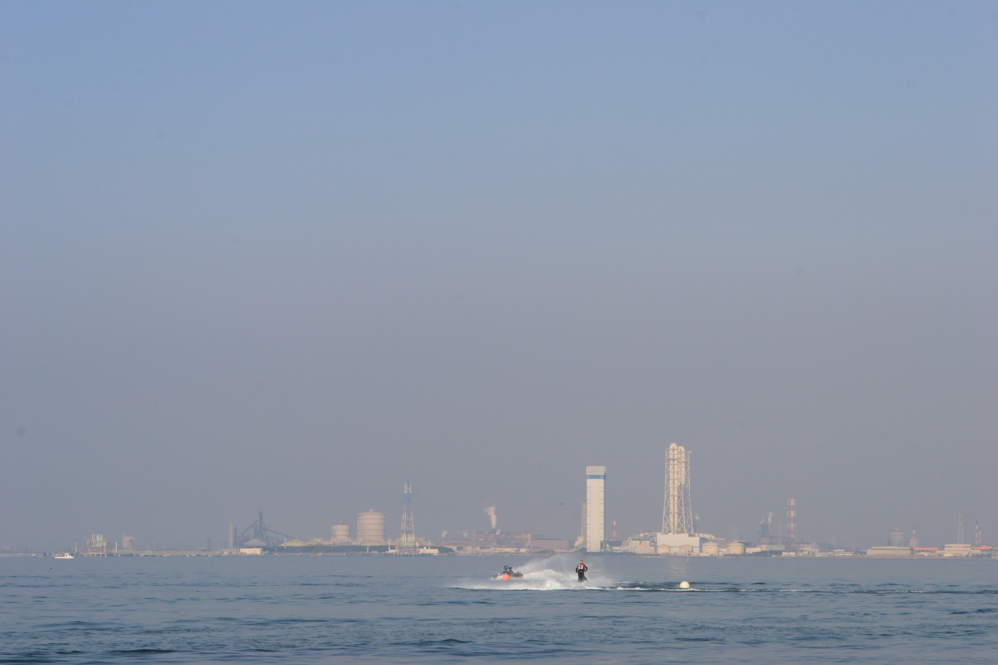 Marine Sports